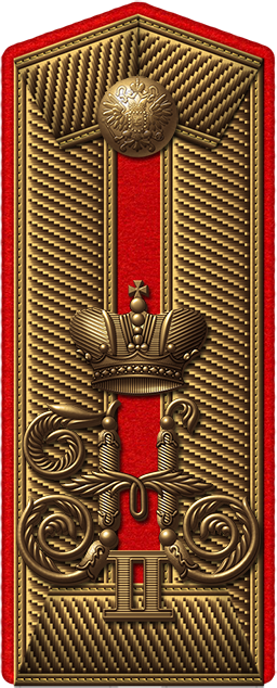 Rank insignia of the Russian Imperial Army as to the year 1914. Pages-Corps His Imperial Majesty, here: Shoulder strap Page Reference to the corresponding image: «Illustration of military ranks and grades» publishing house Beresosvk; Petrograd — 1914. (publication by the lectorate of Yu. Ritchinka and A. Snopkova, edition 1000 copies.)